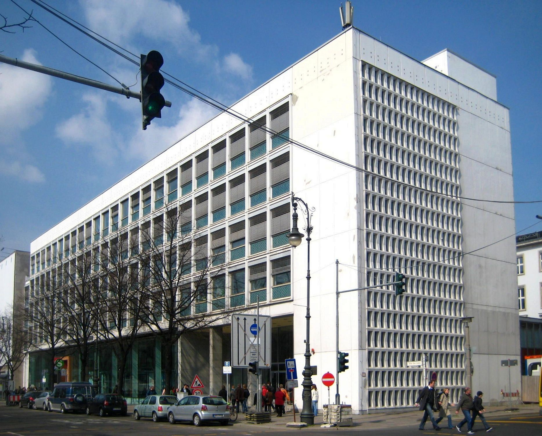 The former office building "Wiratex", Unter den Linden 62-68, corner of Schadowstraße (right), in Berlin-Mitte. It was constructed from 1962 to 1964 to a design by the architect Peter Senf. Under the name "Forum Willy Brandt Berlin" it became seat of the Chancellor Willy Brandt Foundation in March 2010 and will house a permament exhibition on the former governing mayor of West Berlin and West German chancellor. It is part of the historic buildings area "Dorotheenstadt".